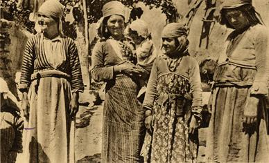 A French post card showing a group of Alawite women in their traditional costumes.